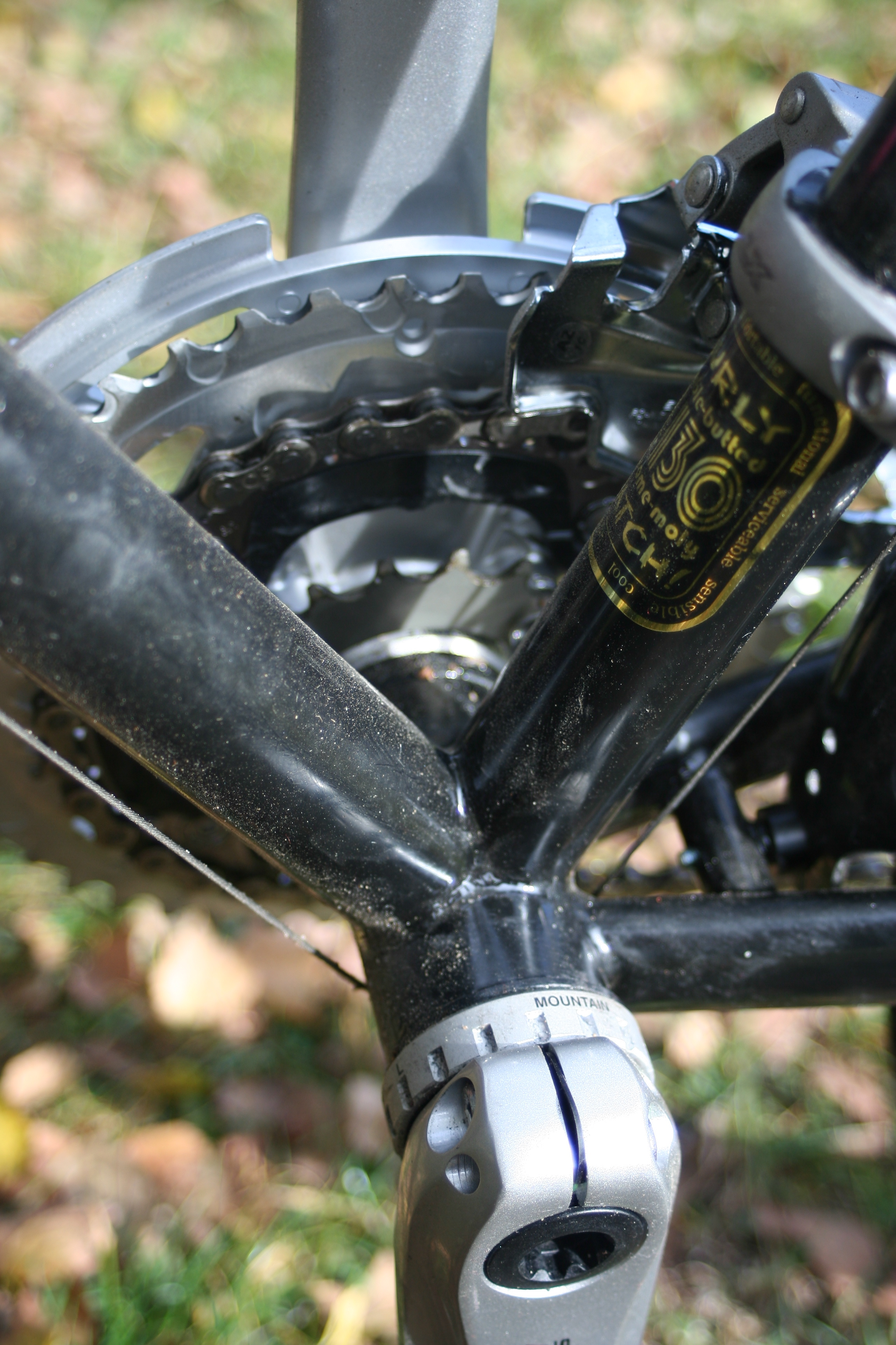 A Shimano Hollowtech II bottom bracket from the left side on a Surly Cross Check frame